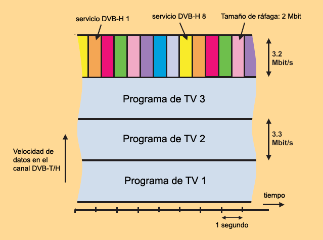 The time slicing principle: example of a service multiplex in a common DVB-T/H channel, including time-sliced DVB-H services.